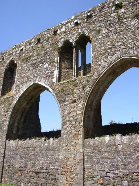 Clerestory, Dunbrody Abbey, Co. Wexford. The north arcade has been walled-up at some time. Between the arches are delicate clerestory windows.